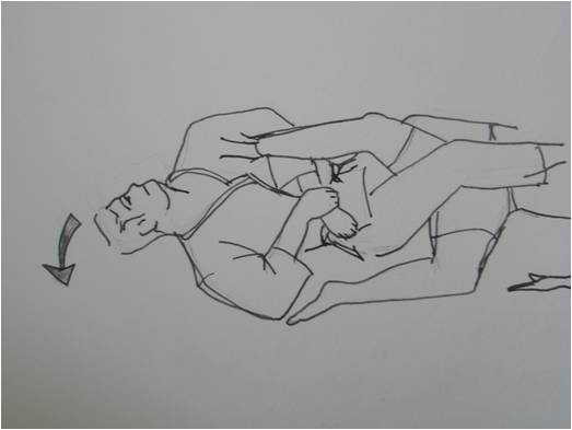 BJJ